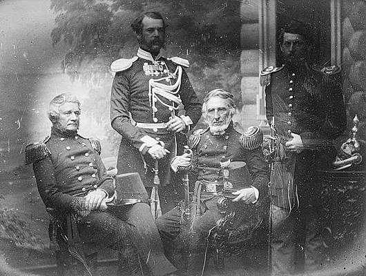 U.S. Military Commission to Crimea. Four military officers, left to right: Alfred Mordecai; Lt. Colonel Obrescoff [Obrezkov], their Russian escort; Richard Delafield; and George B. McClellan. (Source for Russian officer's identity: The Delafield Commission and the American Military Profession, by Matthew Moten, College Station: Texas A & M University Press, 2000, p. 4 and 128.) 1 photograph: whole plate daguerreotype, cut down. Library of Congress Prints and Photographs Division.